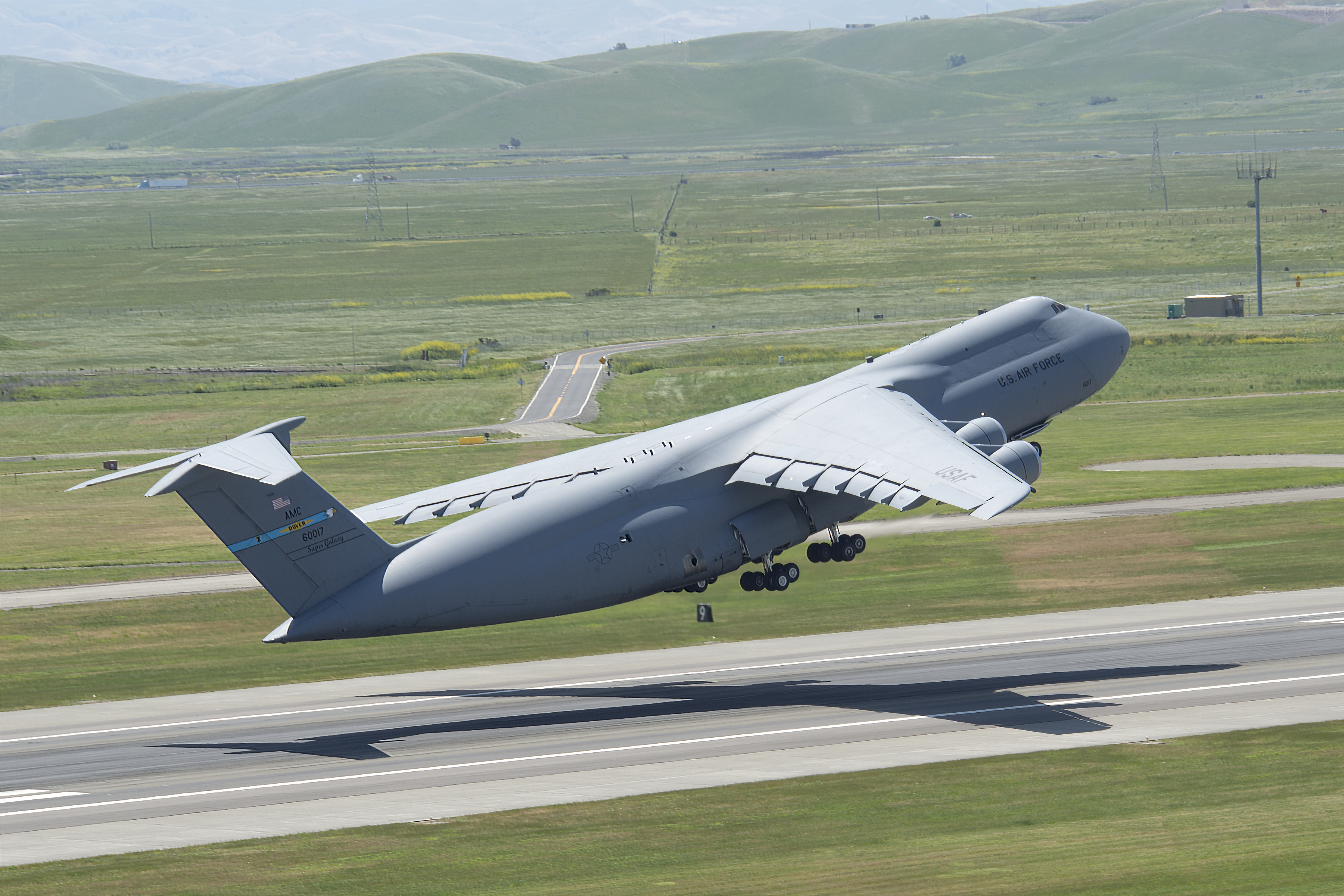 Crowds of people showed up to watch jaw-dropping aerial displays, inspect military aircraft up close, talk with various members of Team Travis to learn about life in the U.S. Air Force, listen to the Air Mobility Band of the Golden West and spend time with friends and family at Travis AFB during the Thunder Over Solano Air Show, 3-4 May 2014. The air show showcased demonstrations from the U.S. Thunderbirds and the U.S. Army Golden Knights. (Released - U.S. Air Force Photograph/Heide Couch)